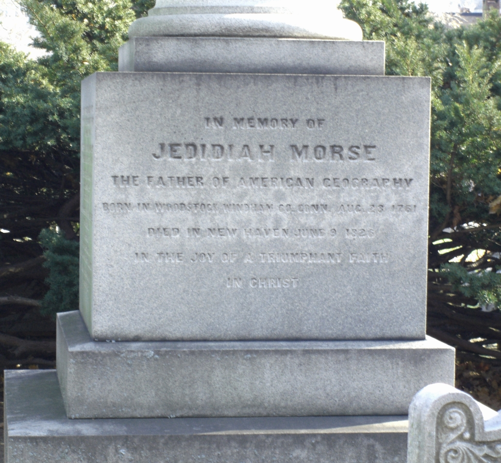 Gravestone of Jedidiah Morse, located at the Grove Street Cemetery in New Haven, Connecticut.